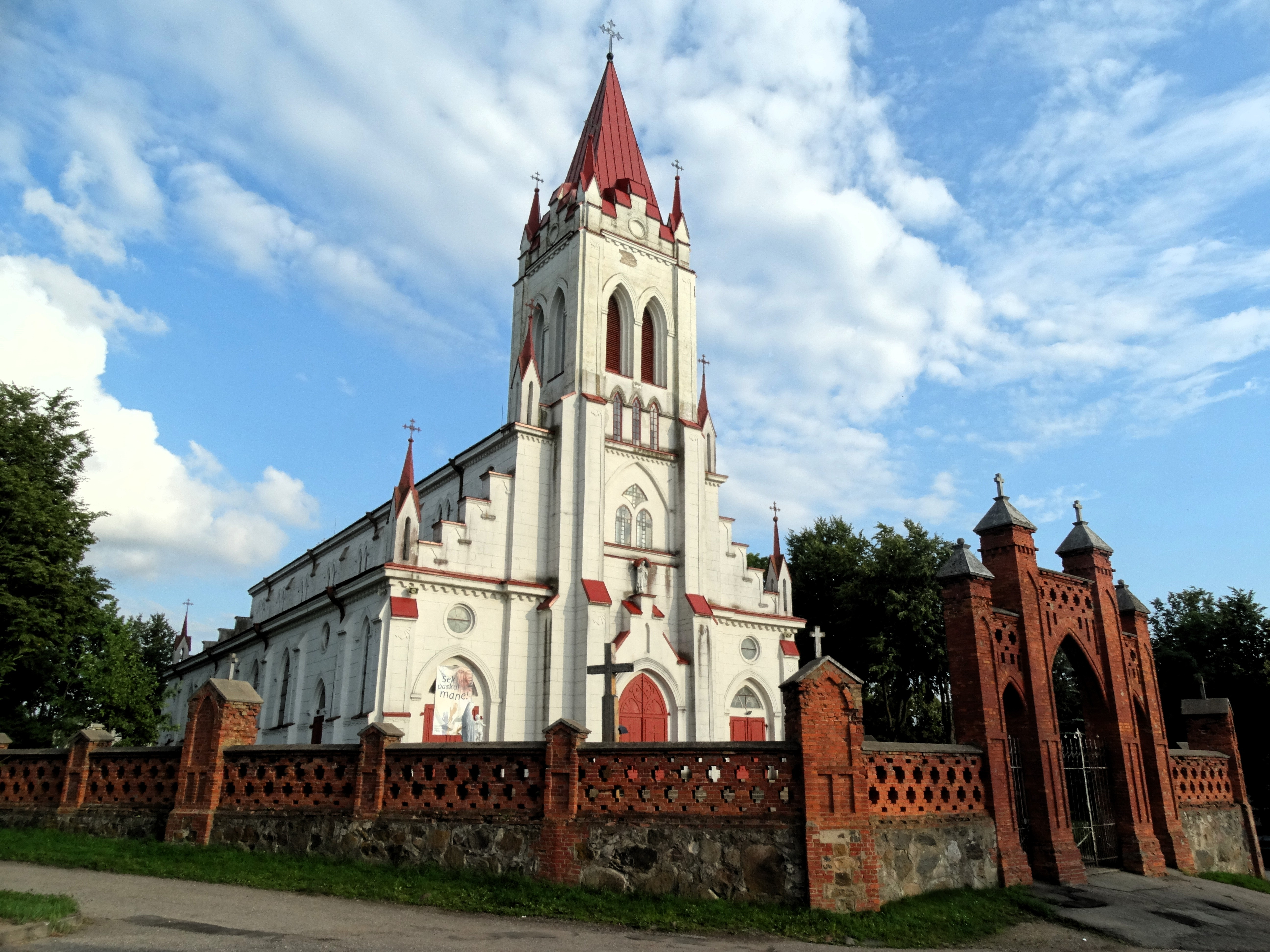 Roman Catholic Church of St. John the Baptist, Kuršėnai, Šiauliai district, Lithuania